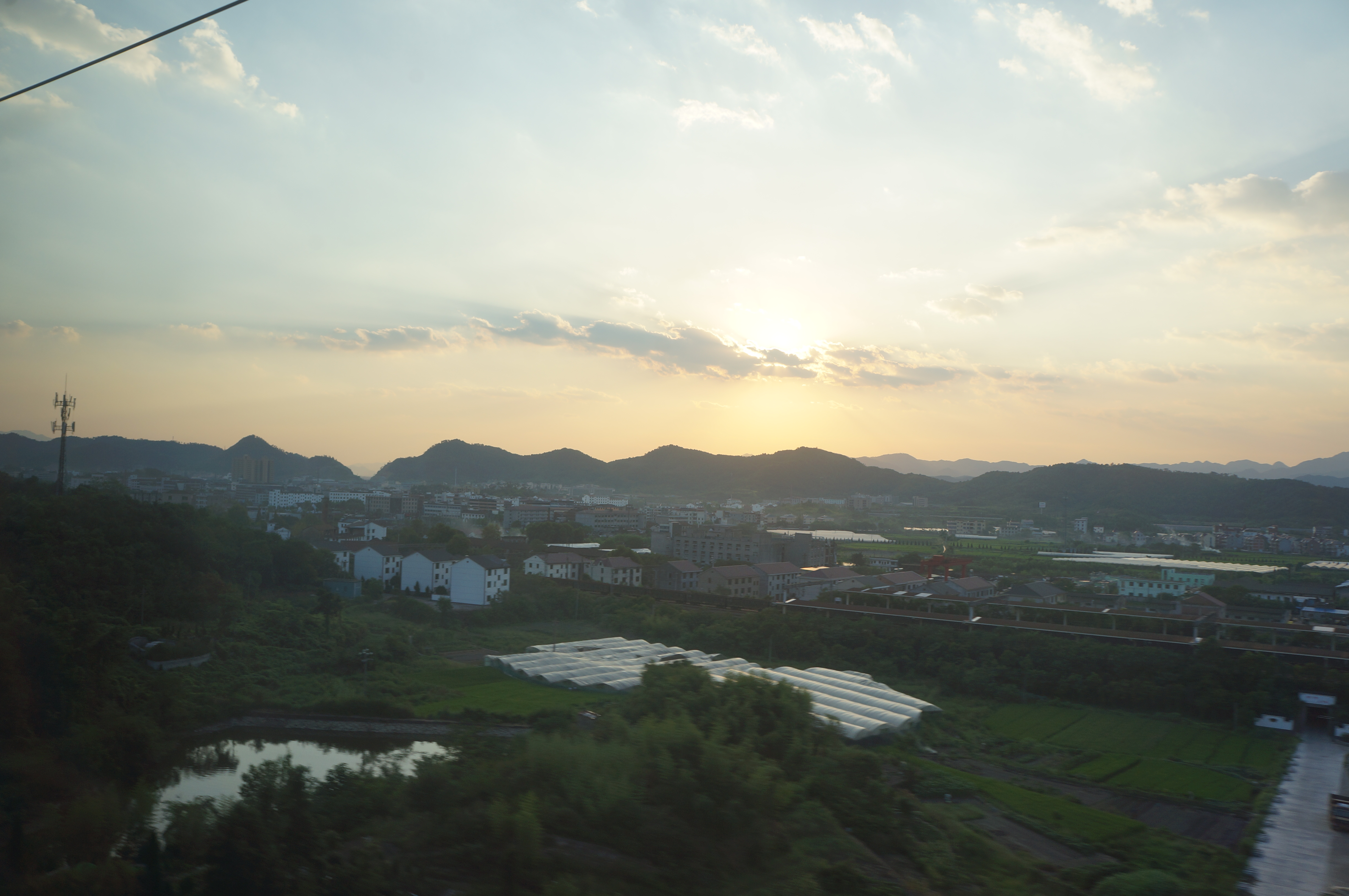 201608 Zhengjiawu, Pujiang 郑家坞